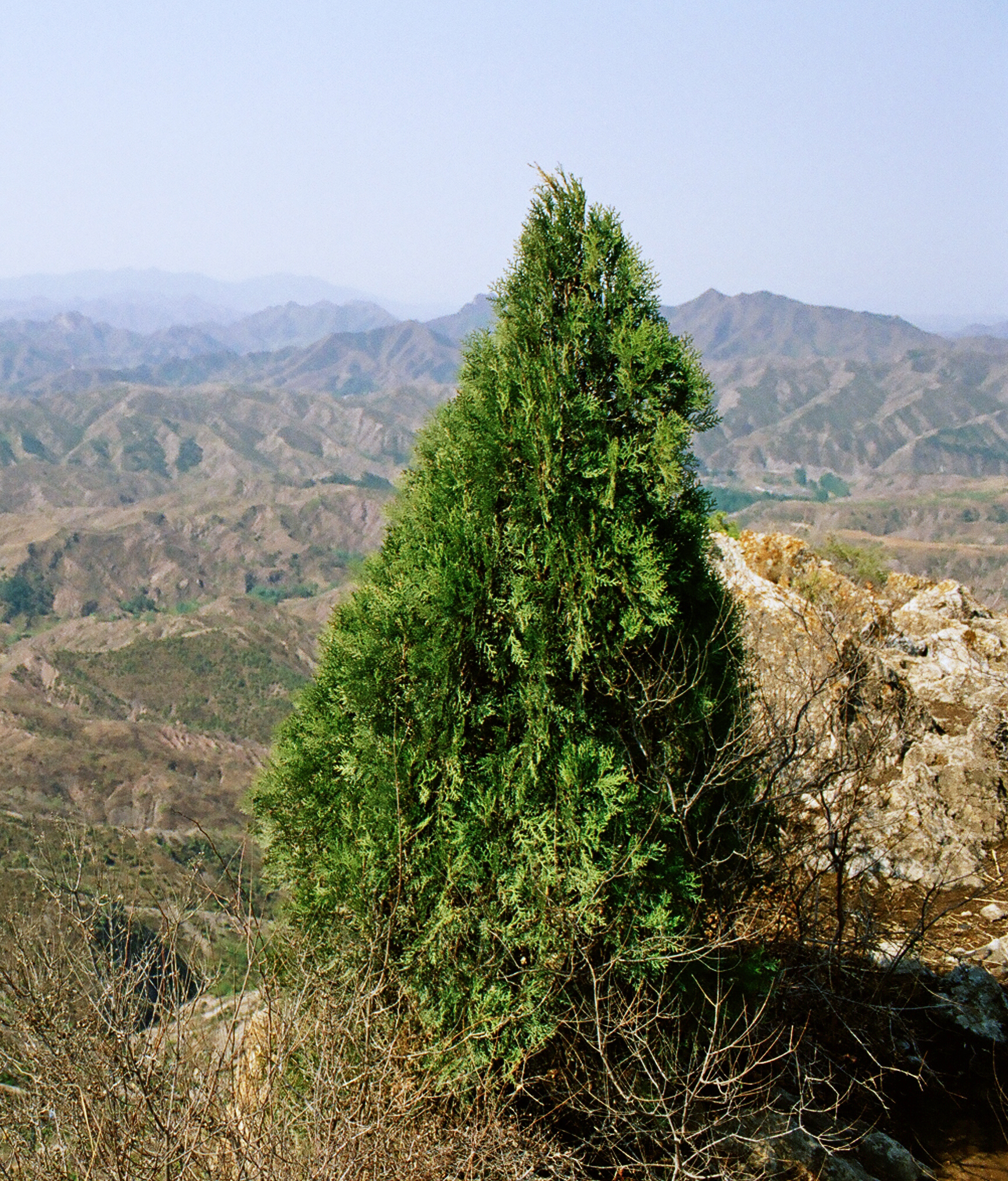 Young Platycladus orientalis tree in natural habitat, Simatai, near Beijing, China.